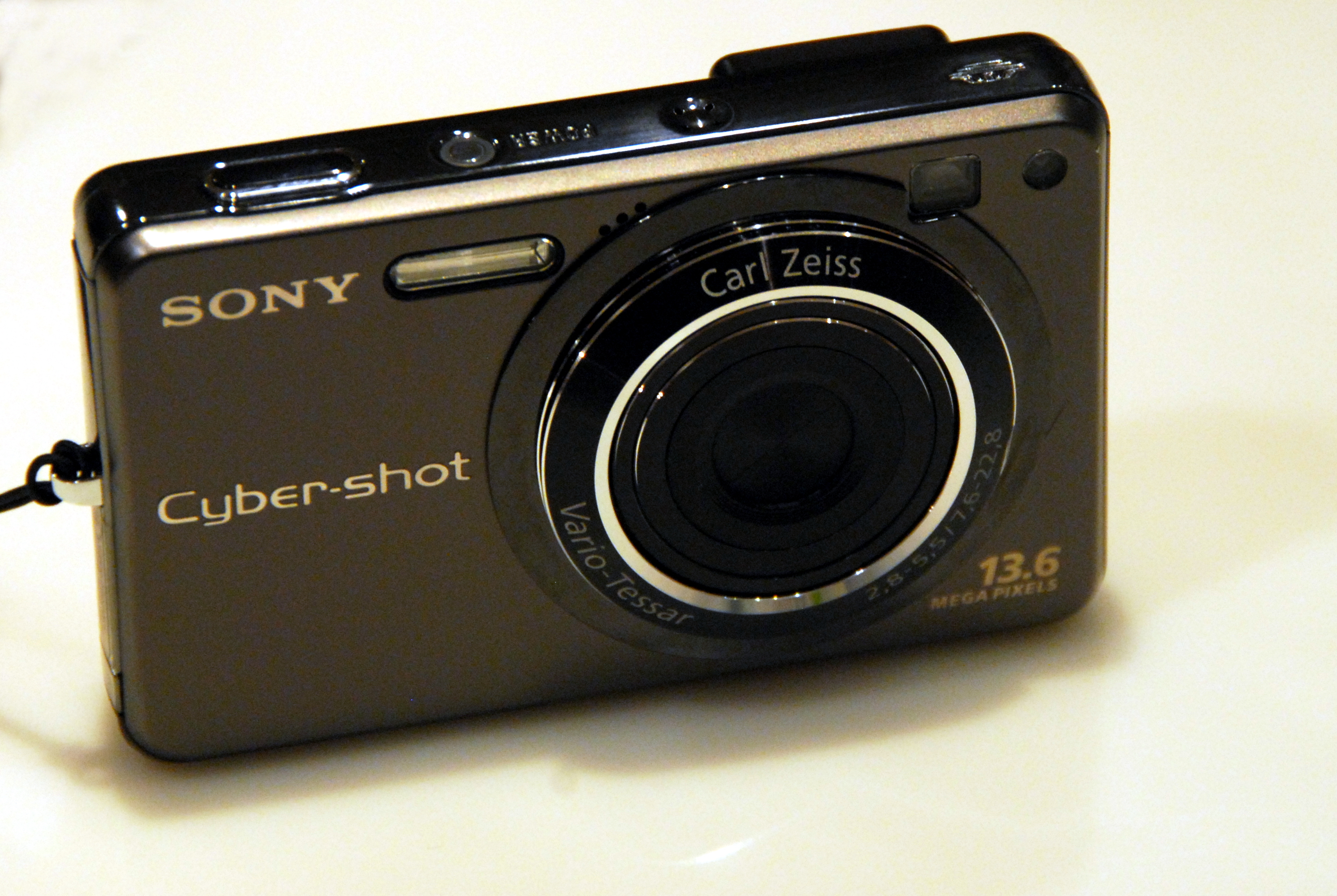 A Sony Cybershot DSC-W300 digital still camera.